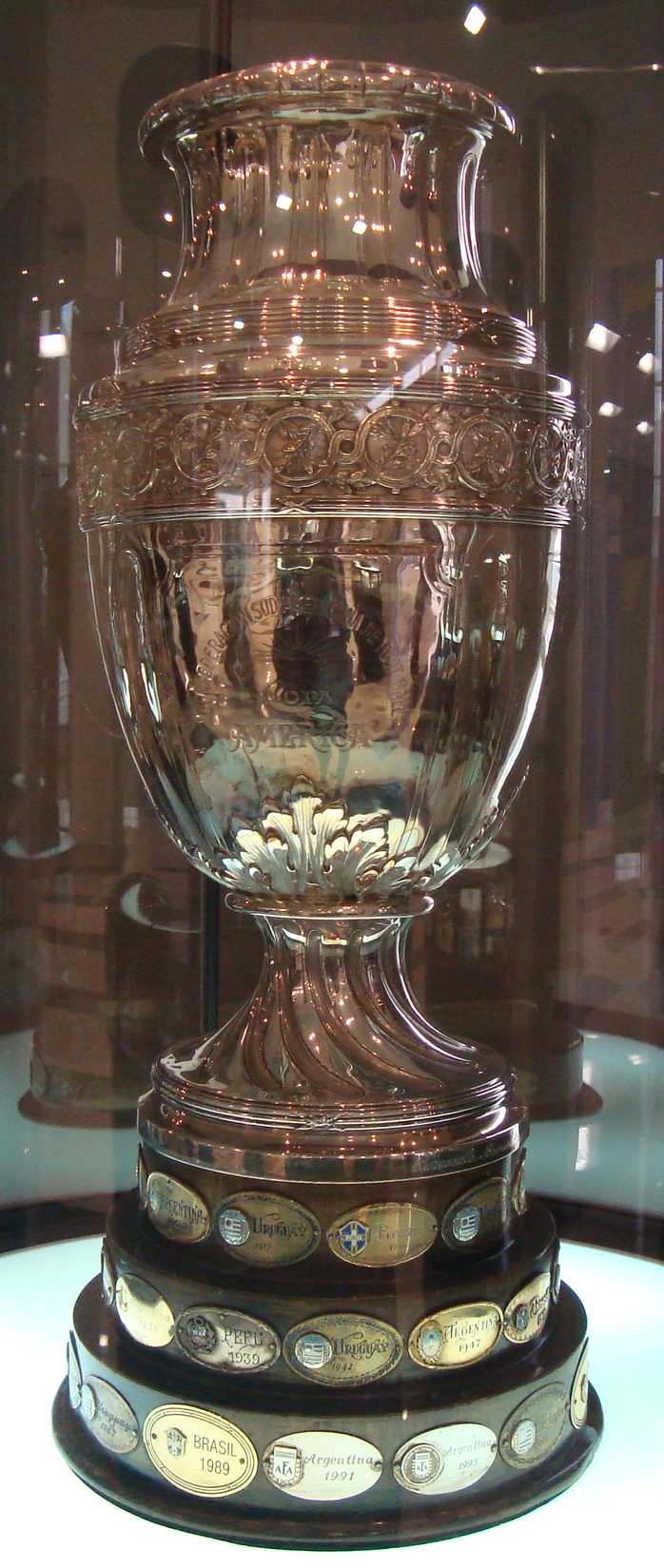 The Copa América trophy, given to the winner of the main national team competition in the Americas. The picture was taken at the Conmebol Museum in Luque, Paraguay.